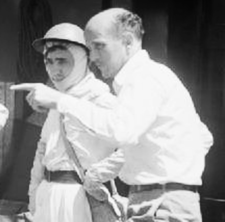 Film director Michael Powell in 1943